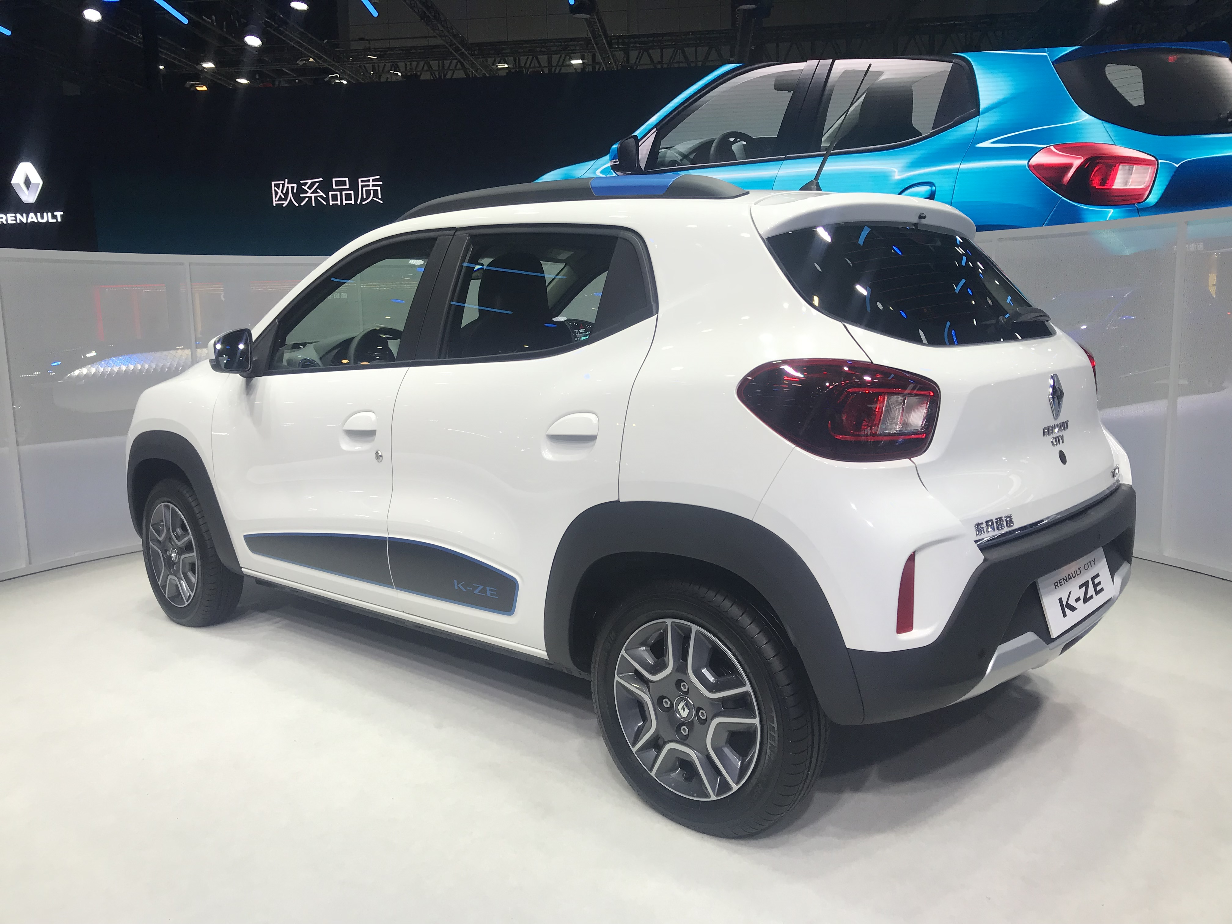 Renault K-ZE rear